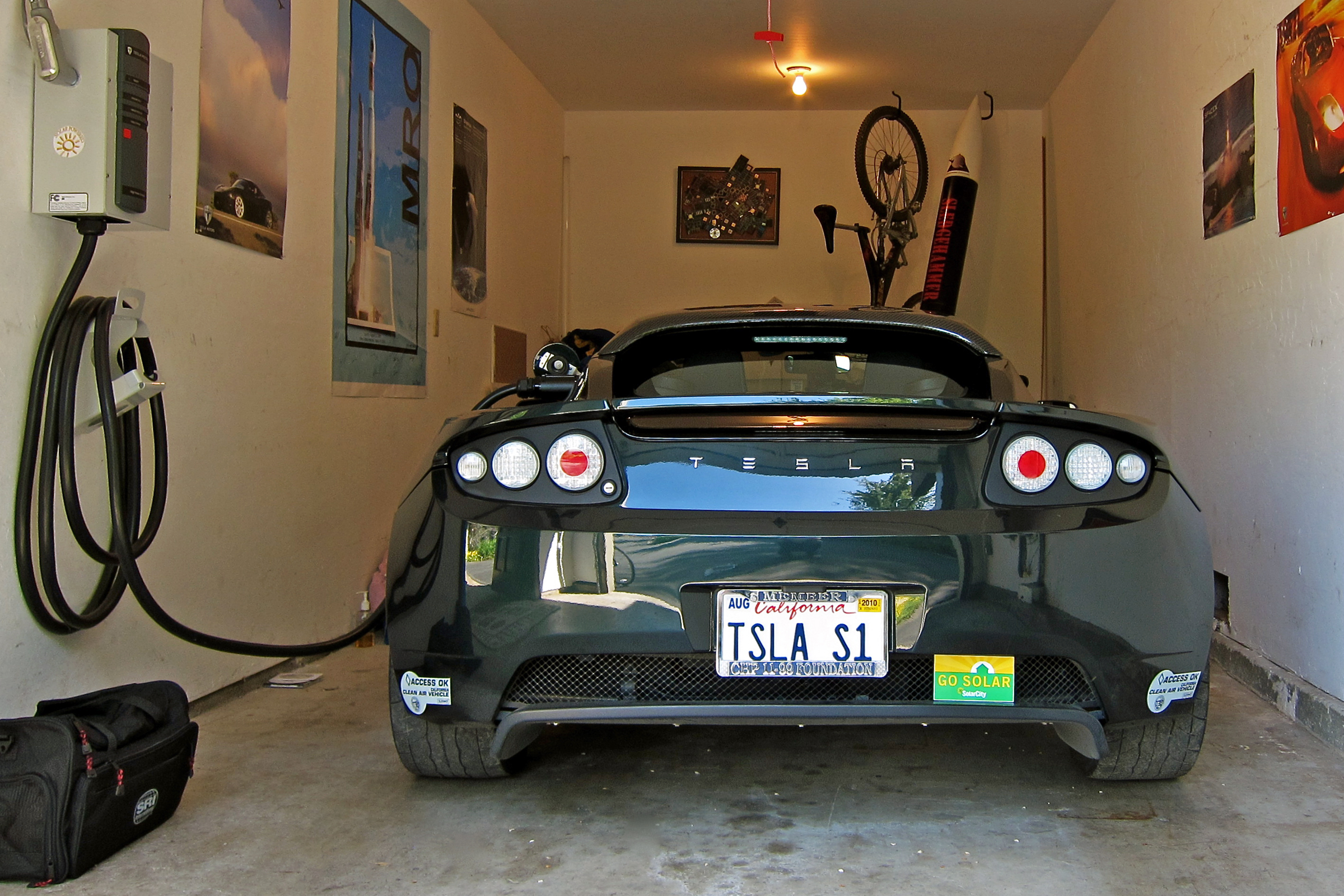 Tesla Roadster charging. Note the California Clean Air stickers that allow the EV free access to HOV lanes with solo driver.